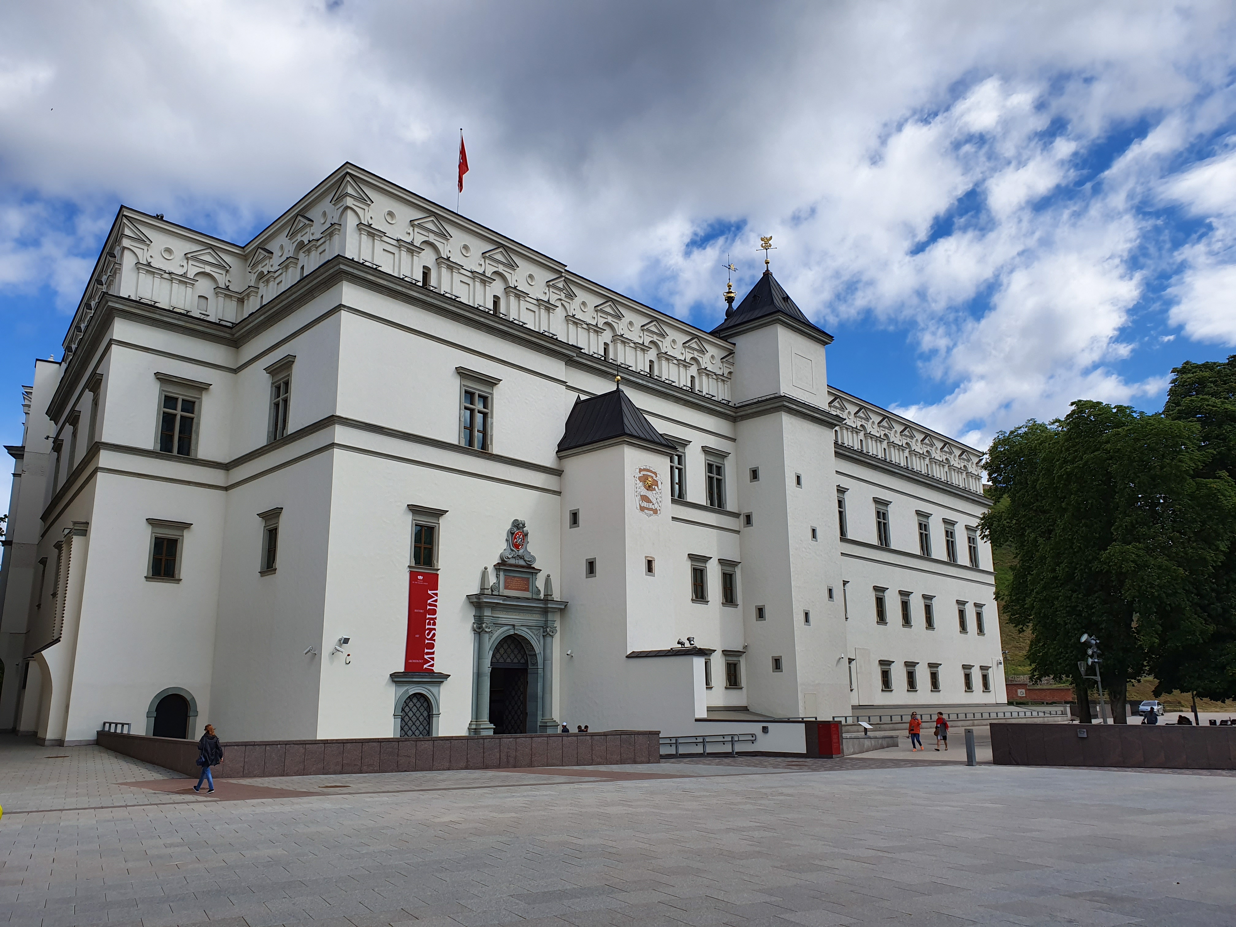 Palace of the Grand Dukes of Lithuania in Vilnius, Lithuania.